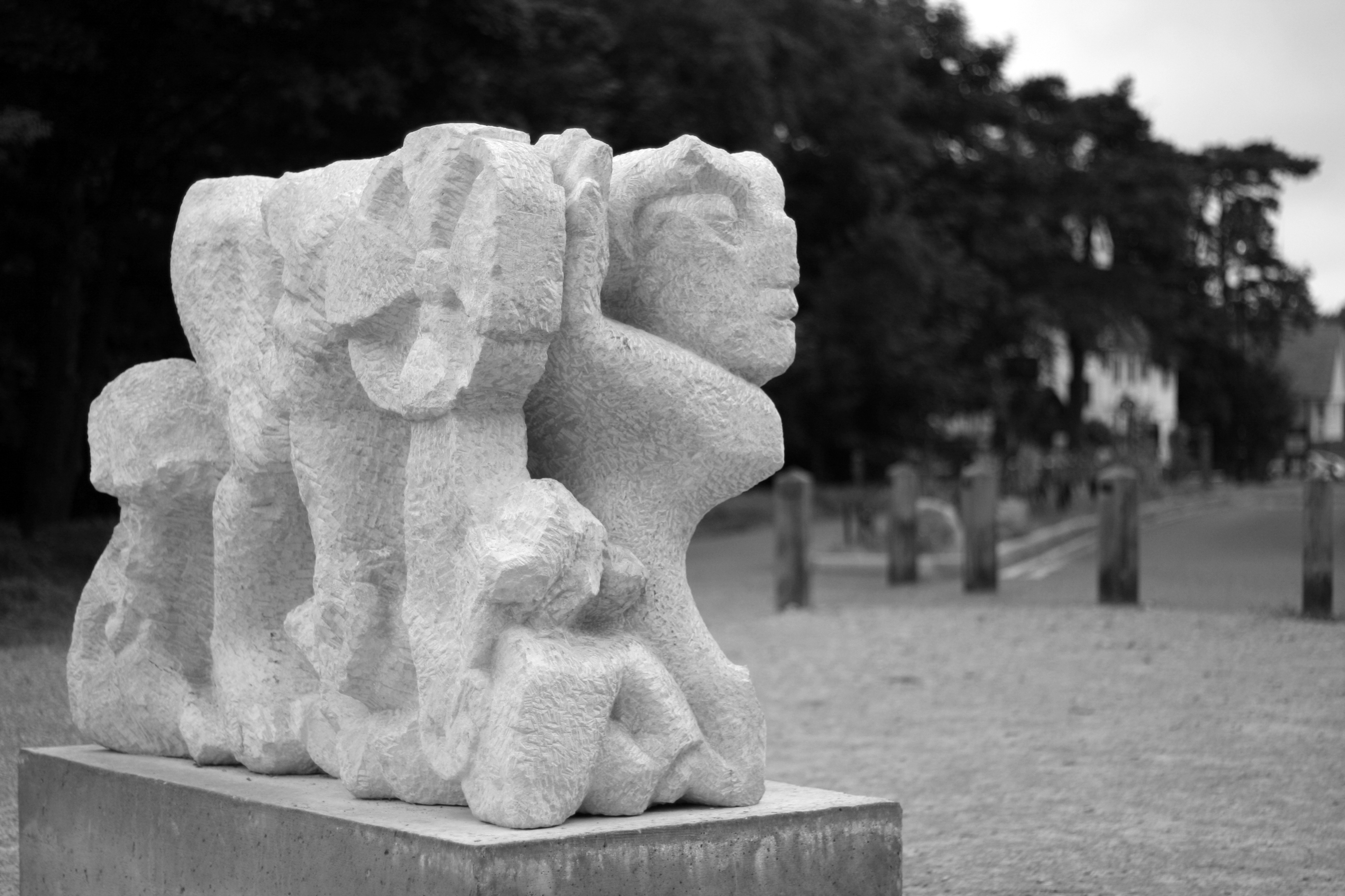 A public Portland Stone carving created by Jon Edgar through the Heritage Lottery-funded A3D project during 2012/13, celebrating the landscape re-united after the creation of the new A3 road tunnel. Named after a public consultation throughout 2013.